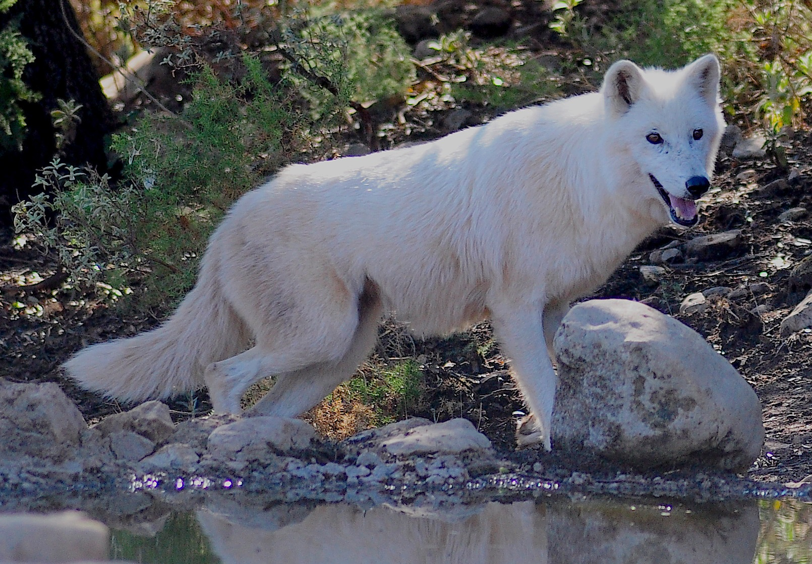 Alaskan tundra wolf in Lobo Park, Antequera, Spain